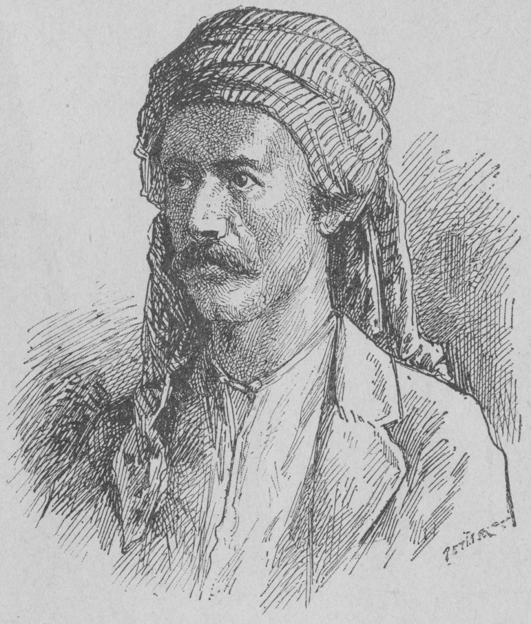 Italian explorer Gaetano Casati, from the book "Stanleys expedition till Emin Paschas undsättning" (1890) Author: Alphonse-Jules Wauters Translator: Oscar Heinrich Dumrath